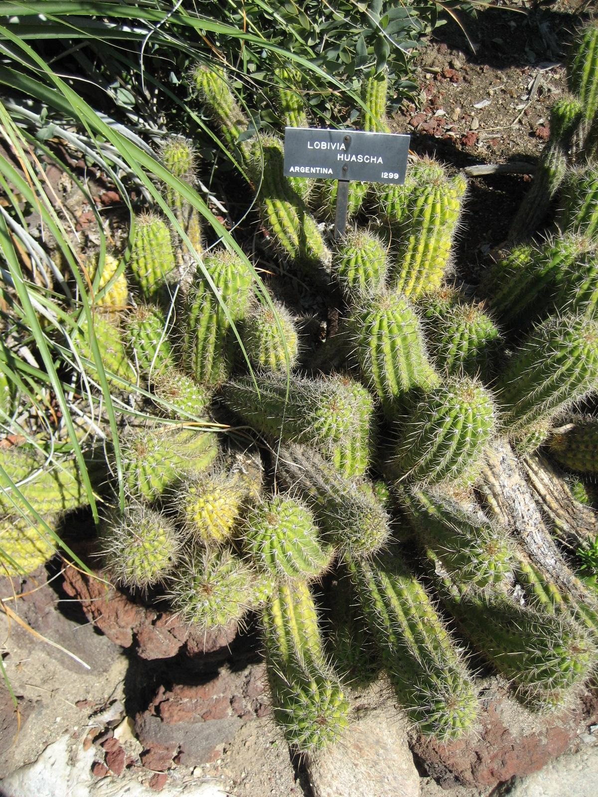 Photographed at Huntington Gardens (Los Angeles) in March